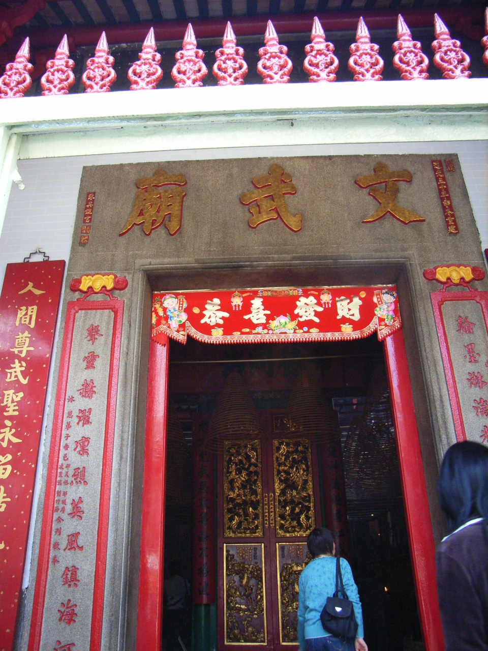 Man Mo Temple, Sheung Wan, HK (near the Hollywood Road & Square Street)